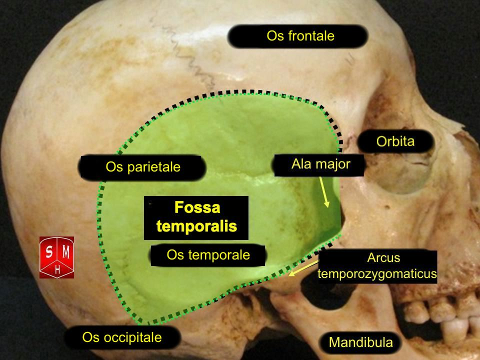 Fossa Temporalis modified to German